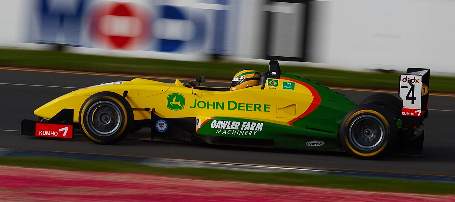 Bruno Senna drives a Dallara F304 Formula Three Car during a support race at the 2006 Australian Grand Prix Attribution to Glenn Thomas.